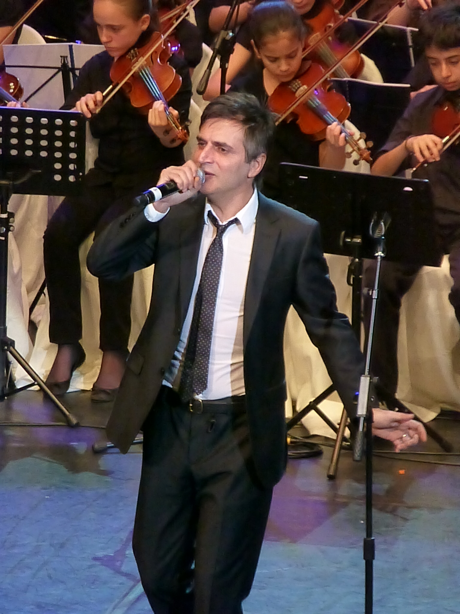 Teoman 2013 / Maslak TIM Istanbul